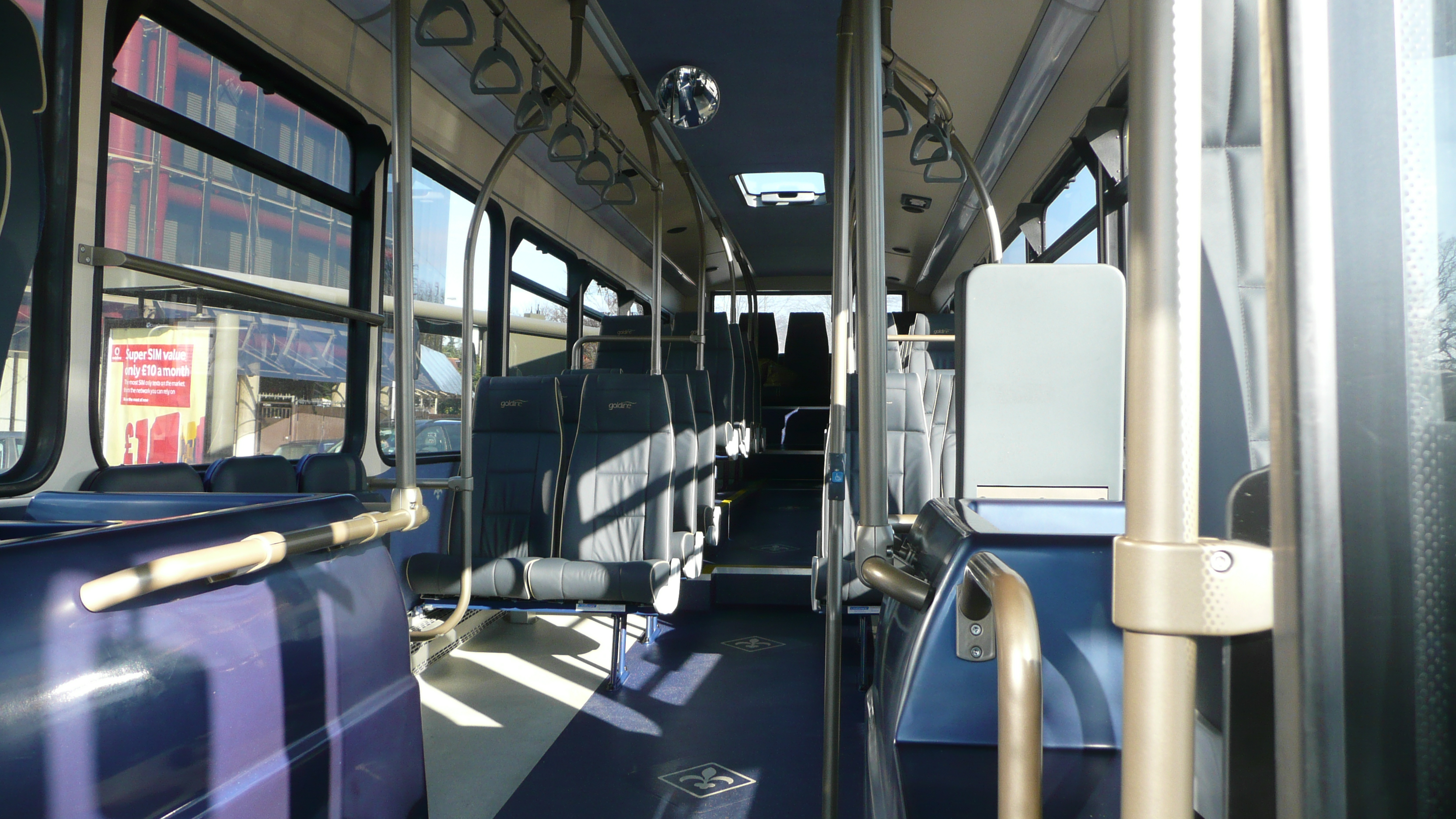 The interior of Stagecoach in Hants & Surrey's 22744 (GX58 MVH), a MAN 18.240/Alexander Dennis Enviro300 at the Stagecoach Goldline launch in Farnborough.